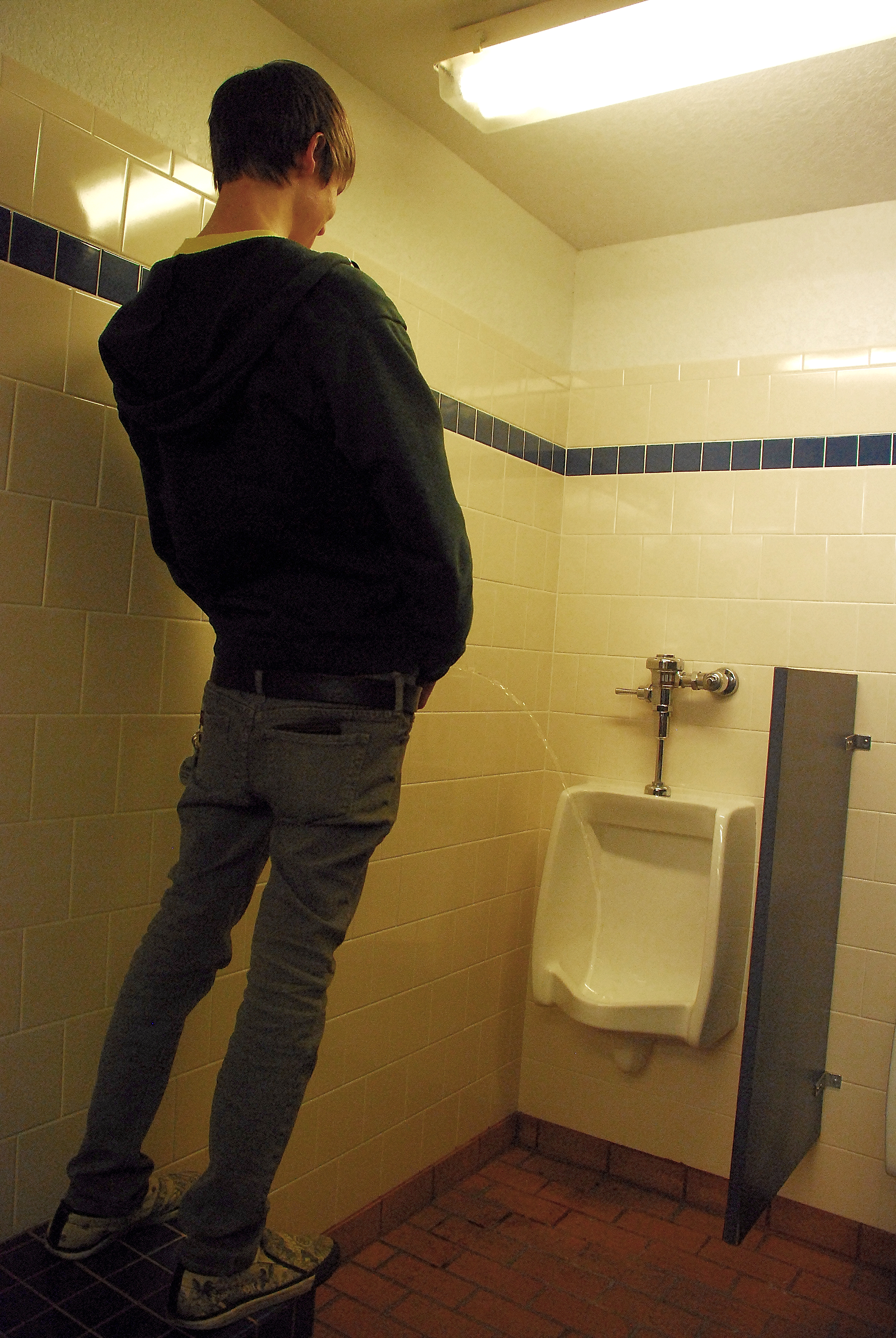 Joey peeing the distance